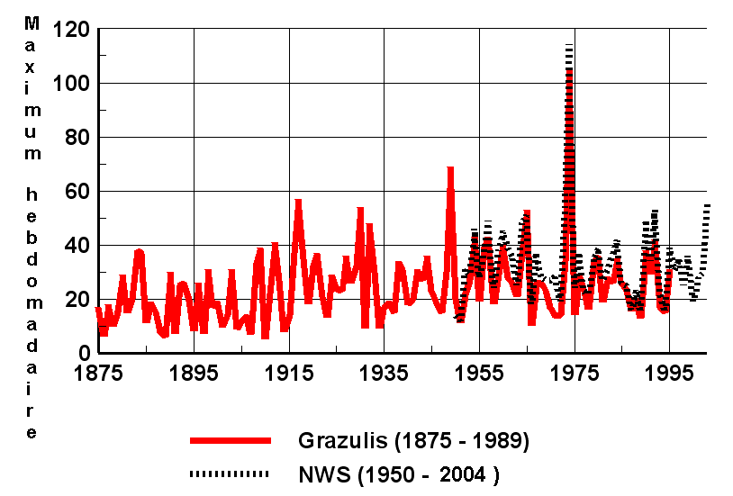 Seven days maximum number of strong tornadoes (F2 and above) in United States, according to the National Weather Service and Grazulis data. The Image is done using this NWS presentation by Steve Corfidi and translating it in French.